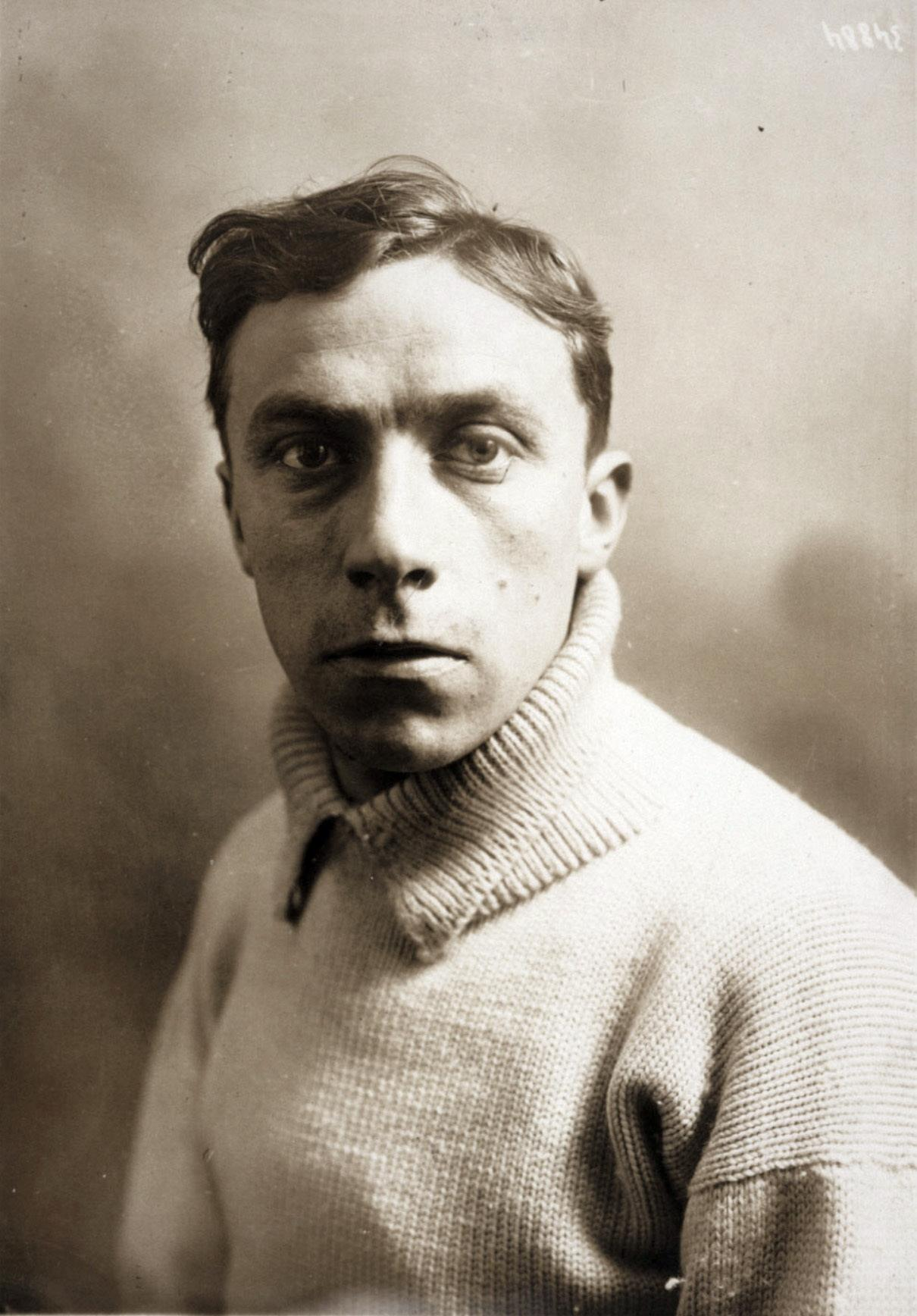 Portrait photograph of Jacques Keyser, six times winner of the long distance footrace known as the Prix Lemonnier, Versailles–Paris